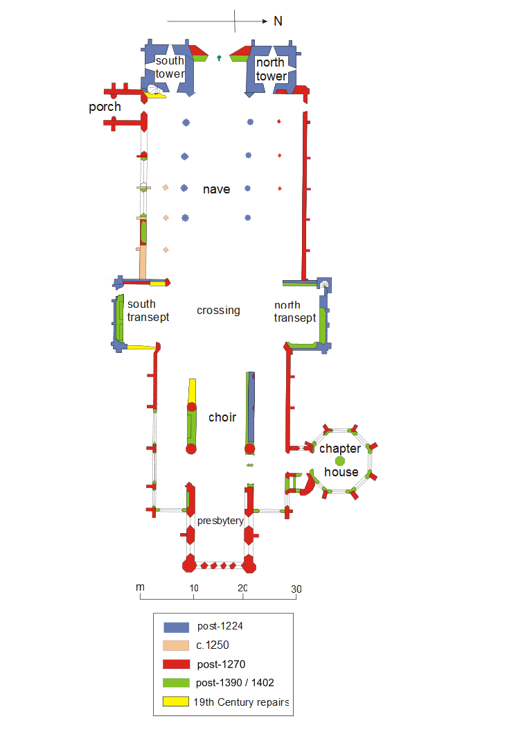 Graphic of floor plan showing building phases after fires. Based on information in Fawcett, Richard, Elgin Cathedral, Historic Scotland, Edinburgh, 2001 ISBN 1-903570-24-7